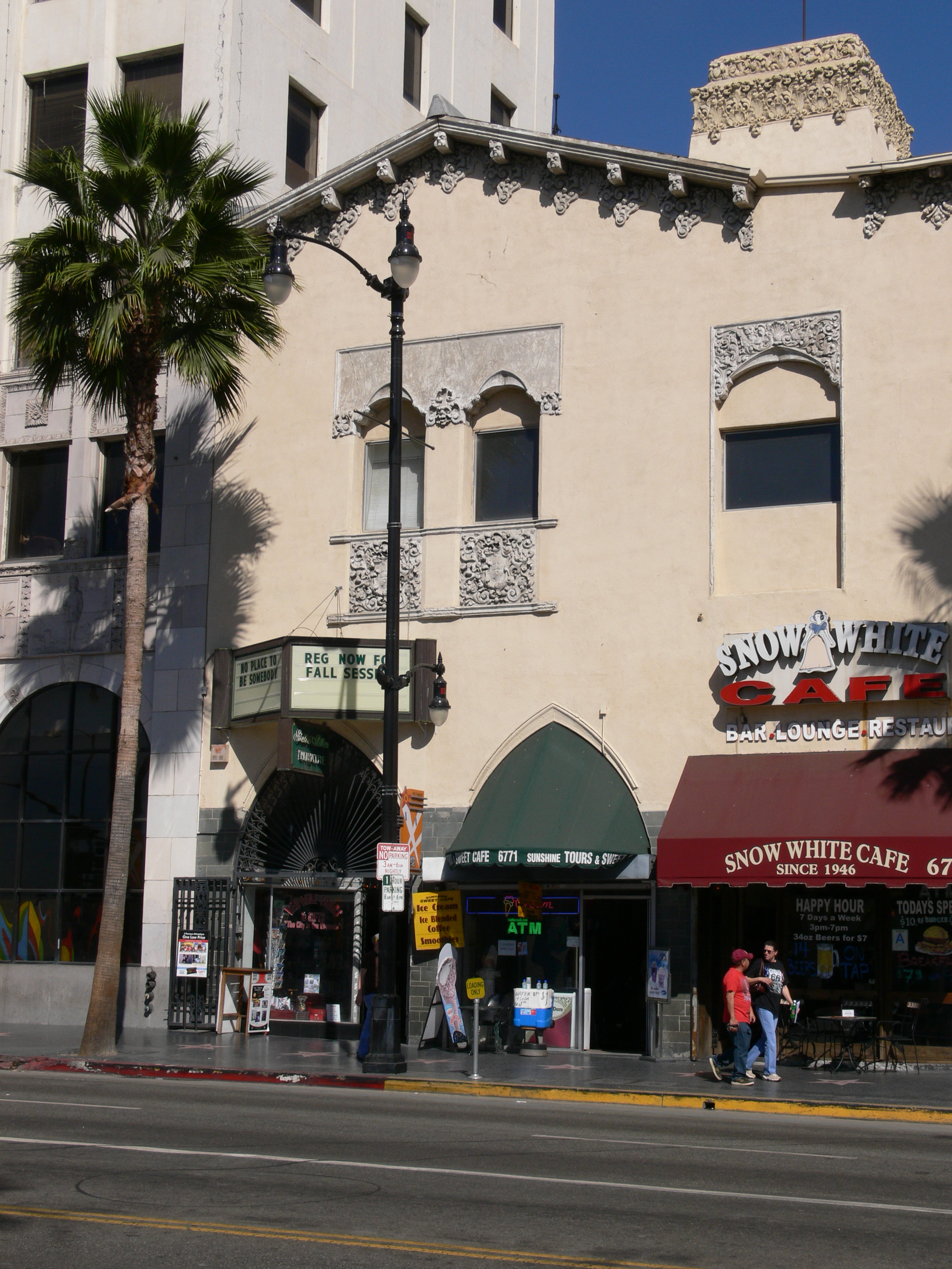 Stella Adler Theatre, 6777 Hollywood Boulevard, Los Angeles